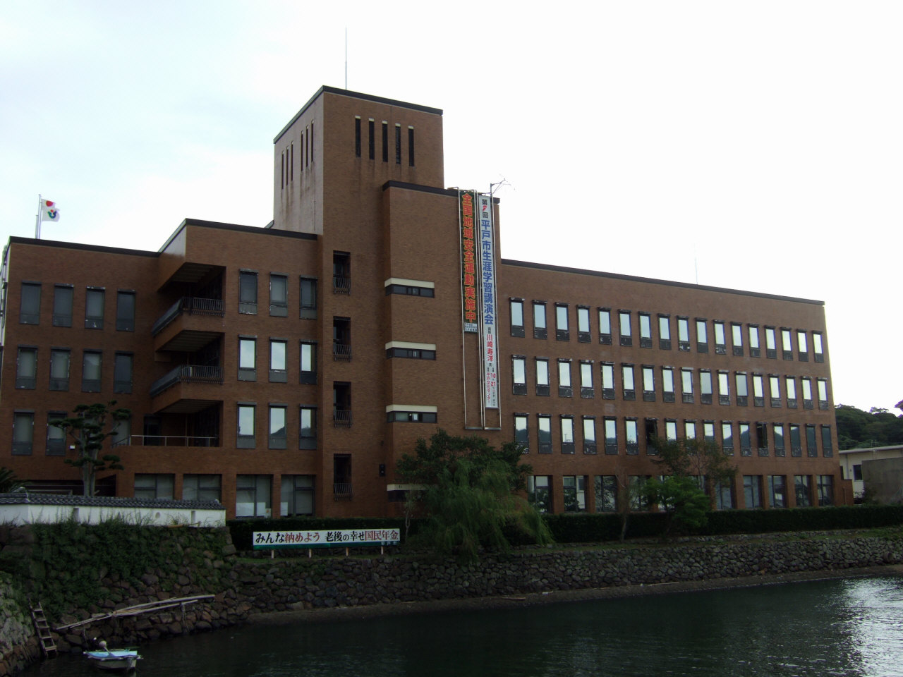 Hirado City Hall in Nagasaki Prefecture, Japan